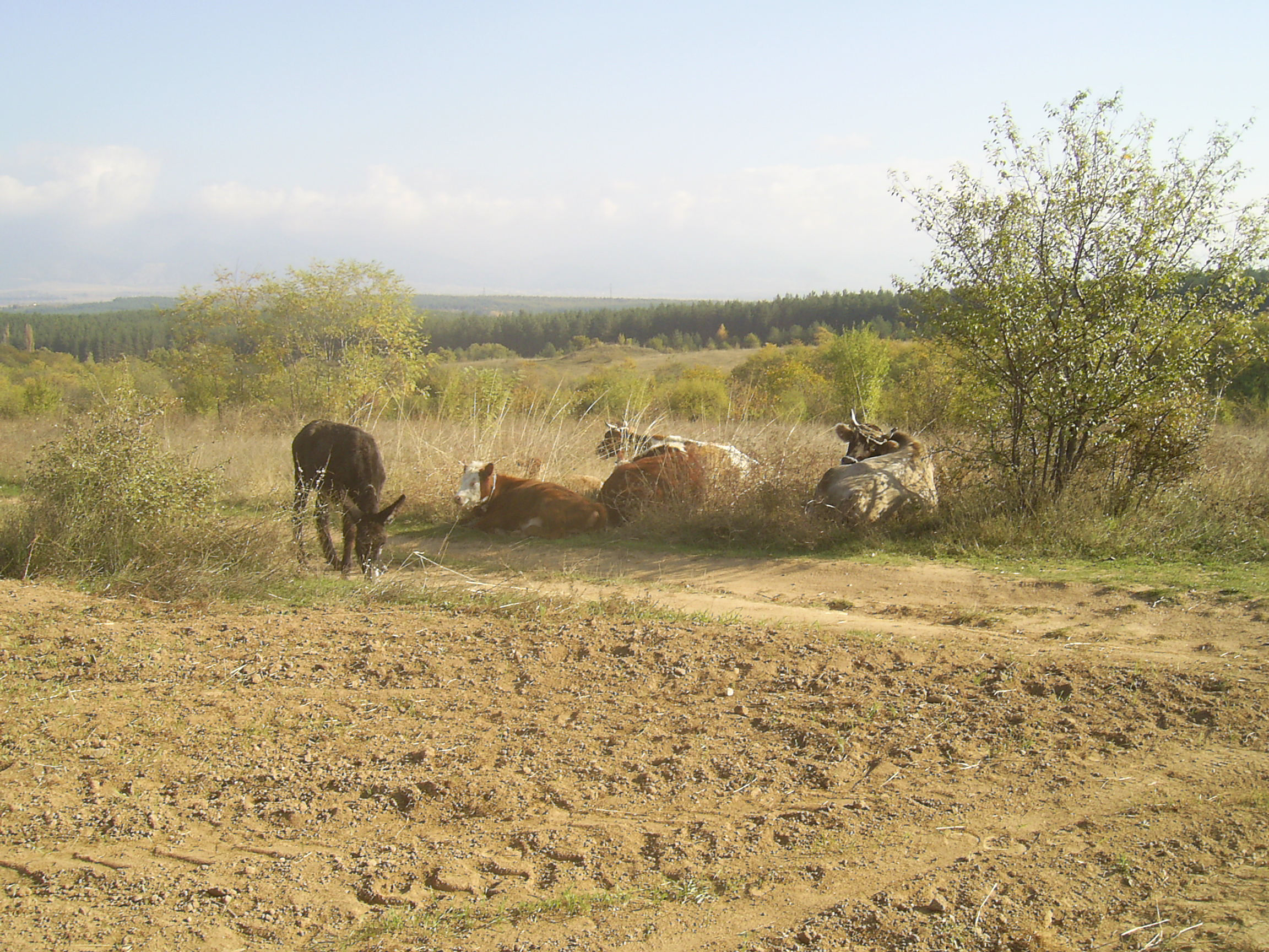 ``Отмора``-землището на с.Горно Черковище